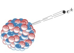 Beta decay